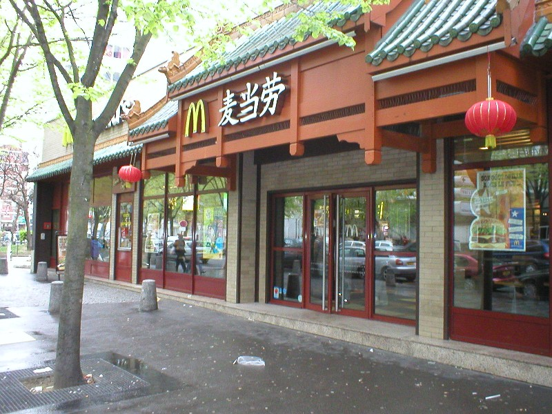 McDonald's Paris - Choisy, 9-11 av de Choisy, 13th arrondissement, Paris 75013